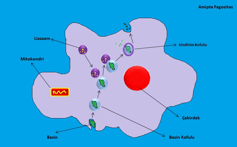 Fagositoz